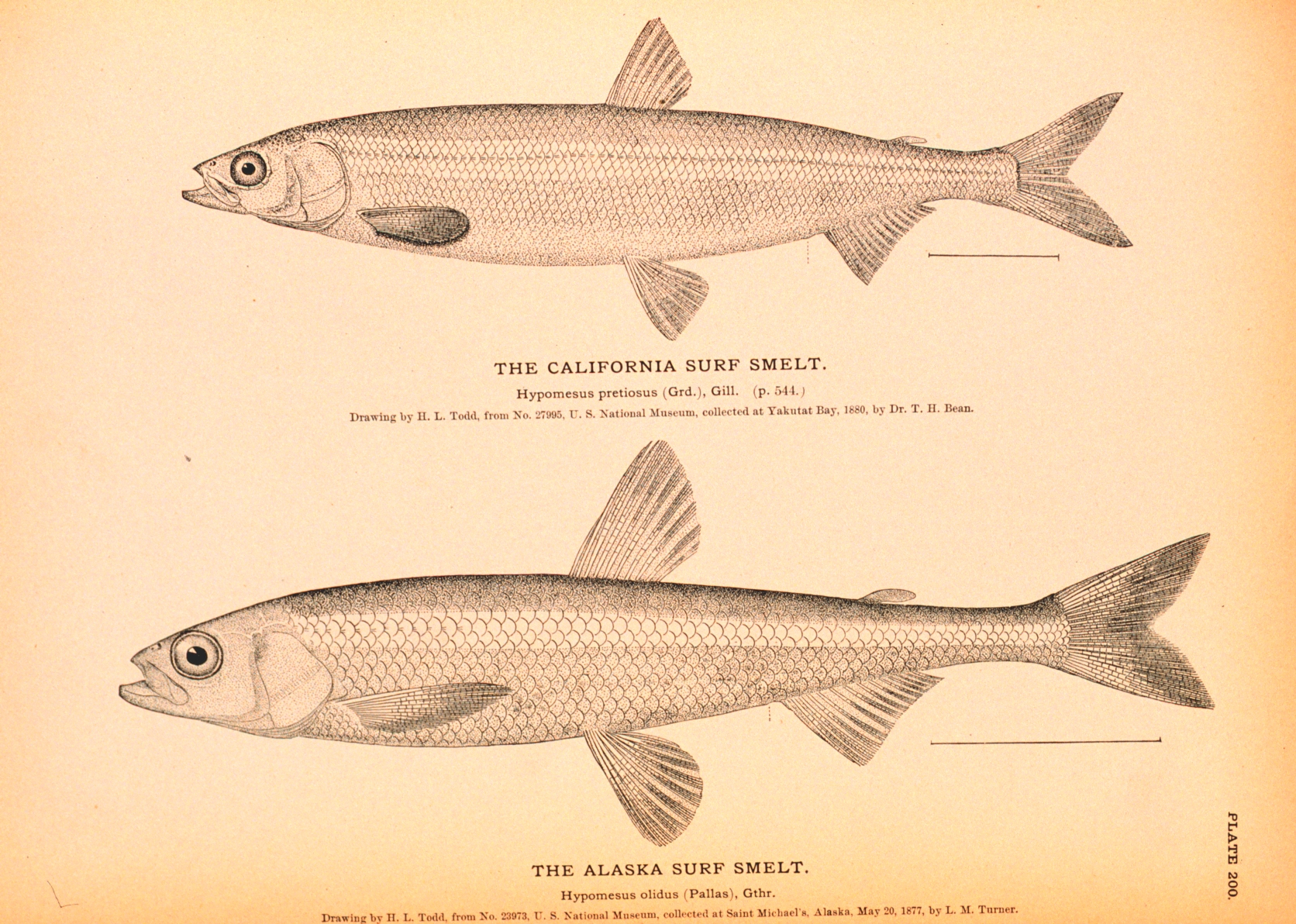 Illustrations of Hypomesus pretiosus (surf smelt) and Hypomesus olidus (pond smelt), labelled as California Surf Smelt and Alaska Surf Smelt, respectively.